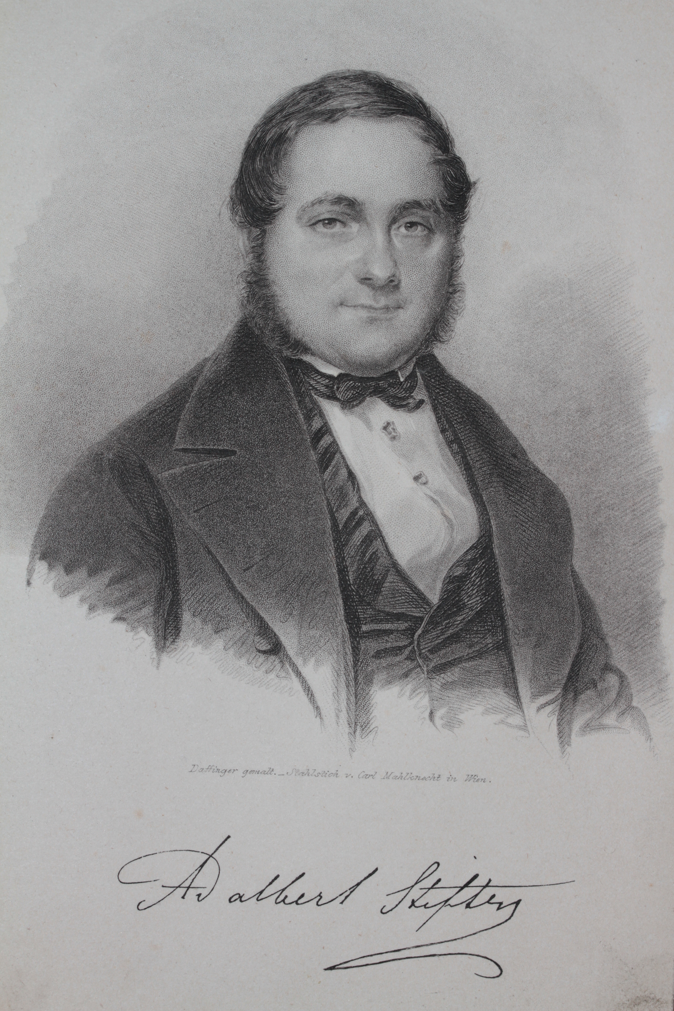 Adalbert Stifter (23 October 1805 – 28 January 1868) was an Austrian writer, poet, painter, and pedagogue.